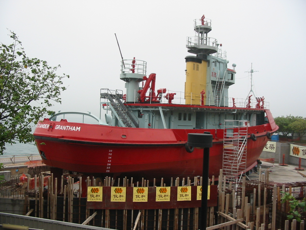 Fireboat Alexander Grantham. Photo taken by Wrightbus in Quarry Bay Park.